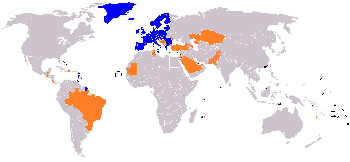 SEPA and IBAN (blue), IBAN (orange)